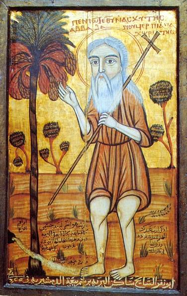 Saint Onophrios (old coptic icon, Al Damshiriah Old Cairo)